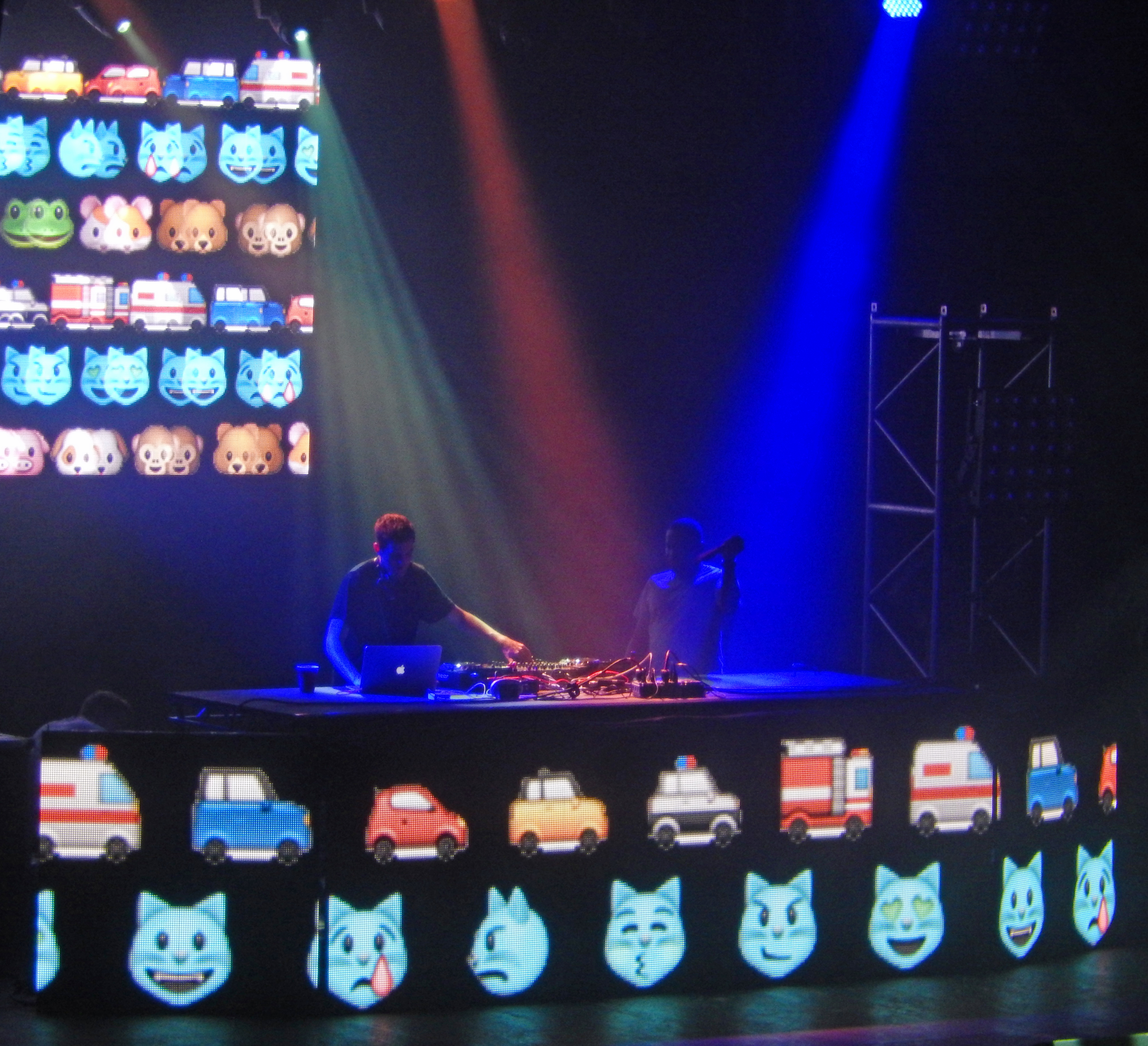 Dillon Francis @ Aragon, Chicago 12/14/2013